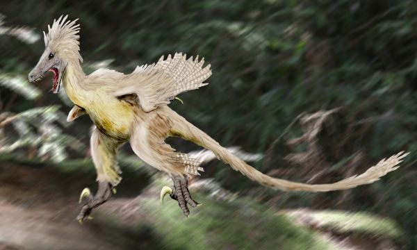 Linheraptor